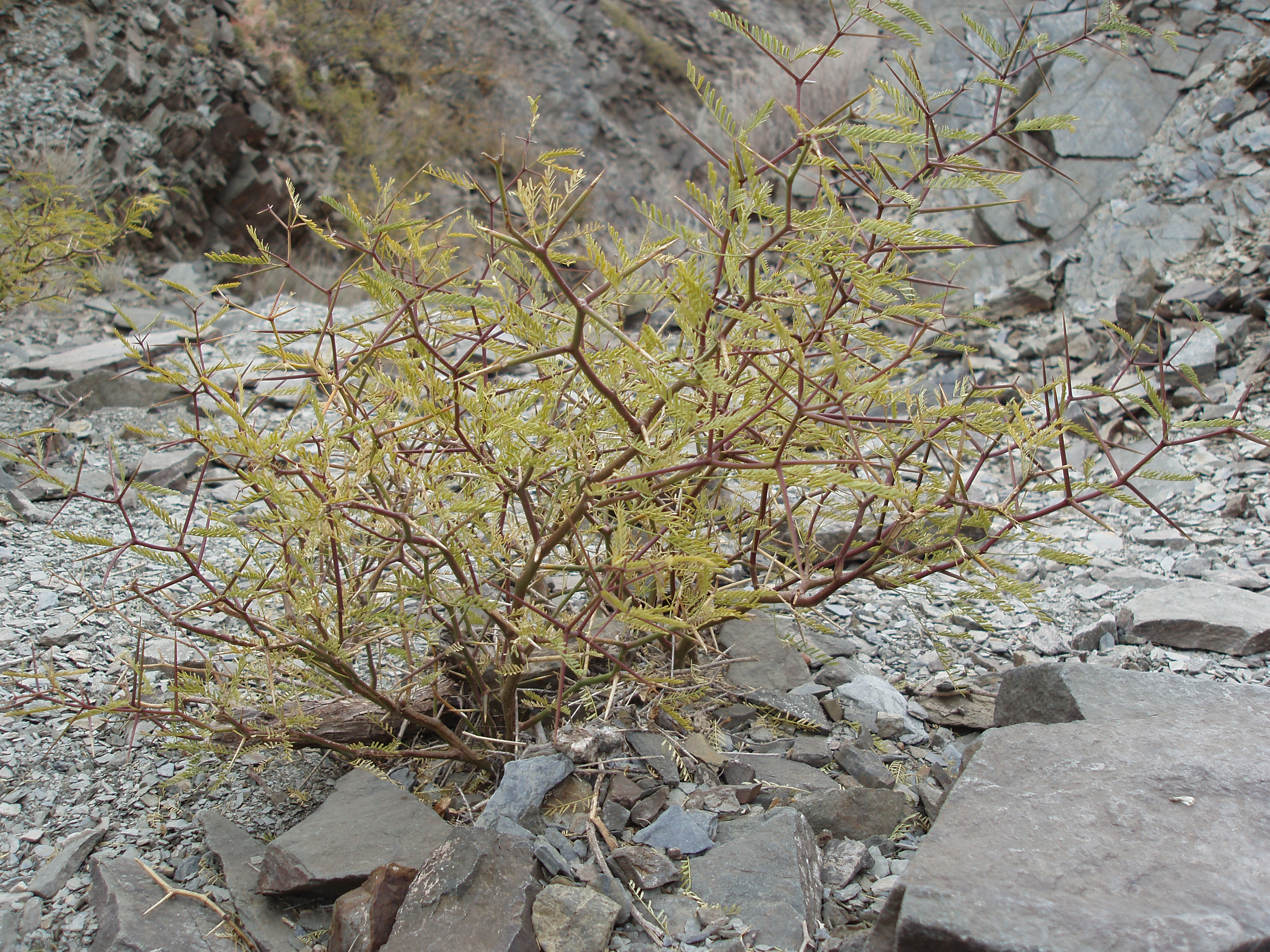 unidentified plant, Uspallata, Argentina, Prosopis alpataco?